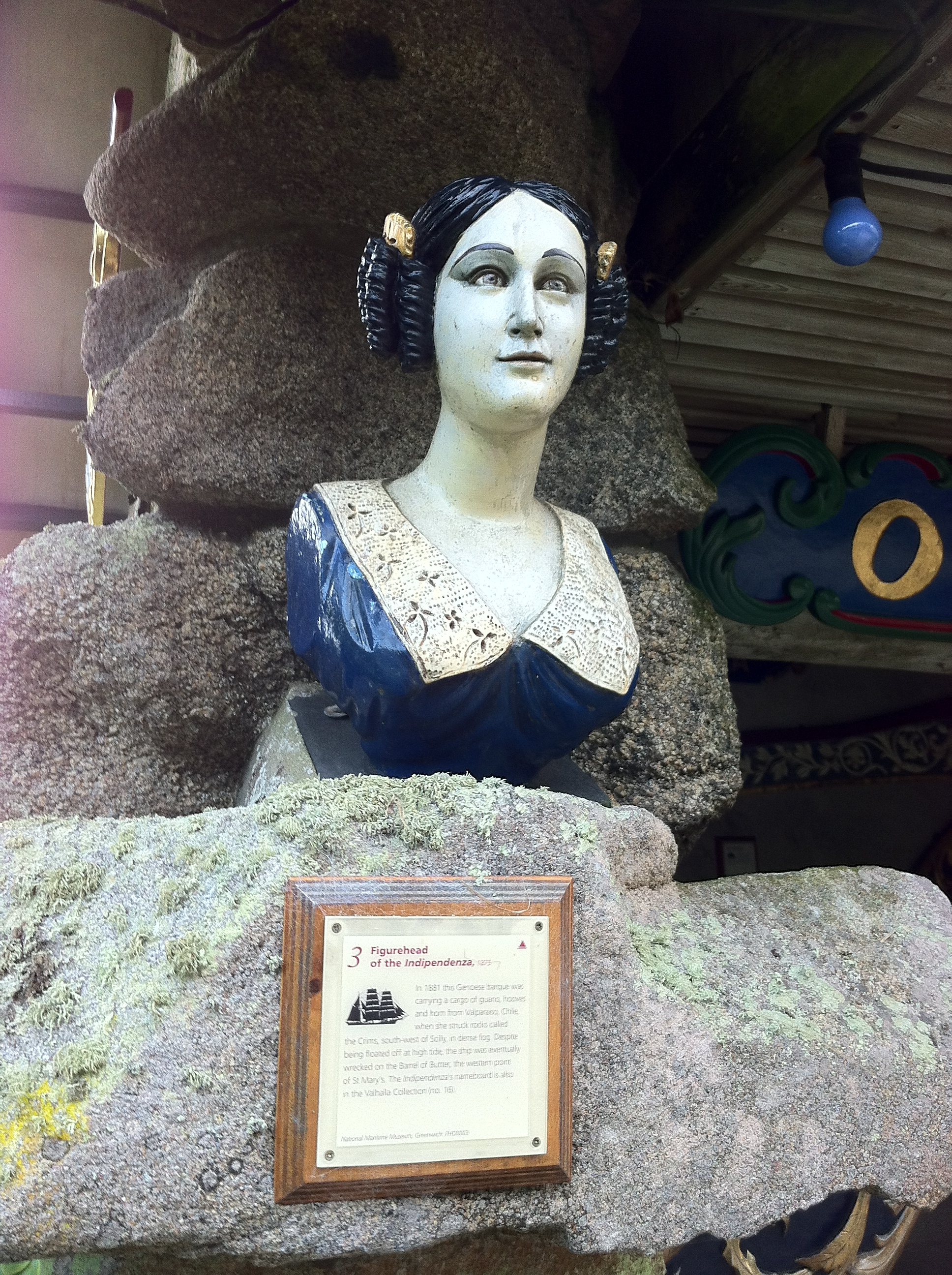 In 1881 this Genoese barque was carrying a cargo of guano and horn from Valparaiso, Chile, when she struck rocks called the Crims, south west of the Isles of Scilly. In the Valhalla Museum, Tresco Abbey Gardens, Isles of Scilly.